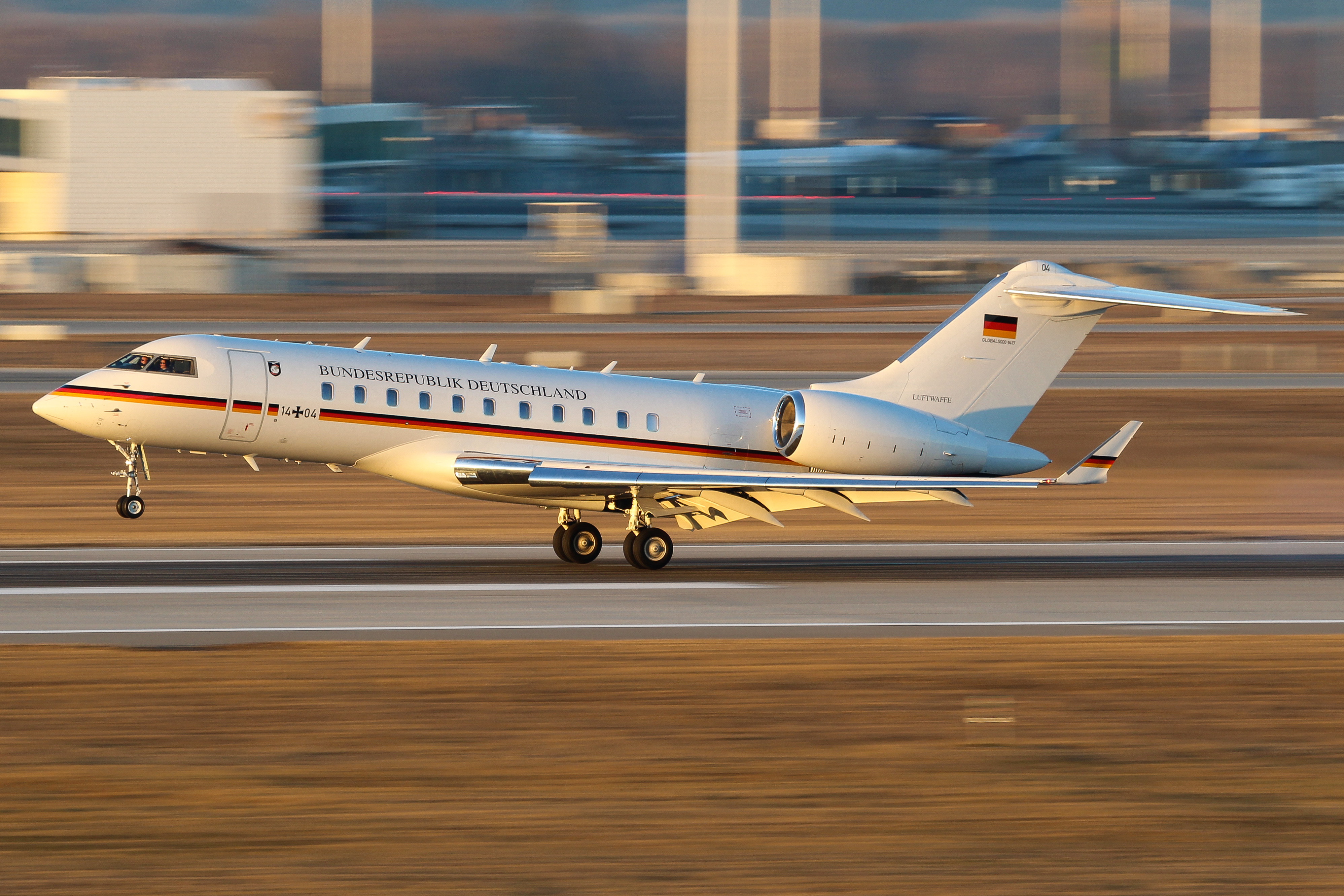 German Air Force Bombardier BD-700 Global Express landing at Munich Airport.